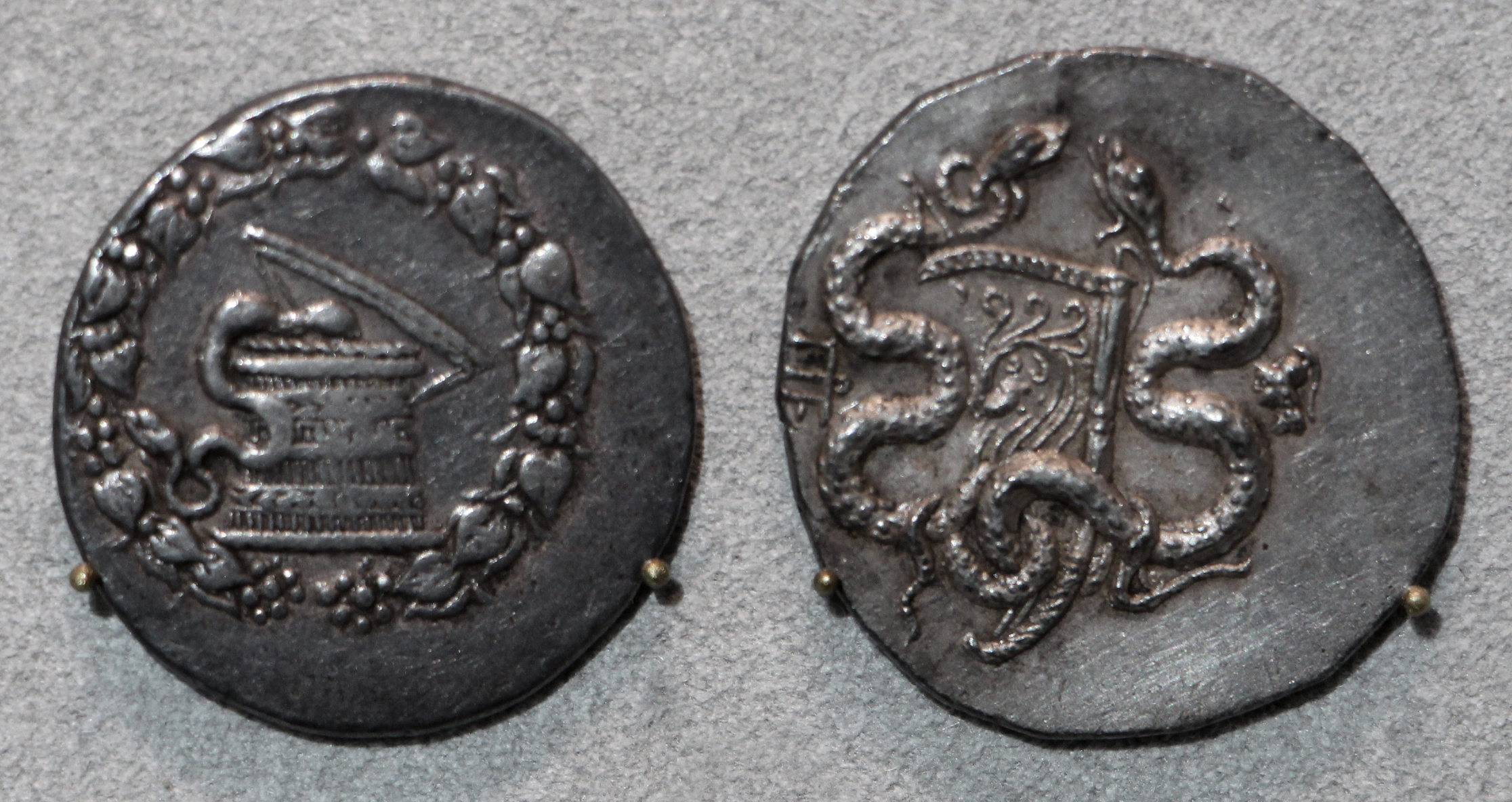 Ancient Greek coins in the Altes Museum Berlin